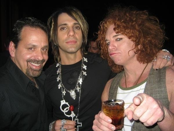 Nick G. Miller, Criss Angel, Carrott Top at VH1 Awards